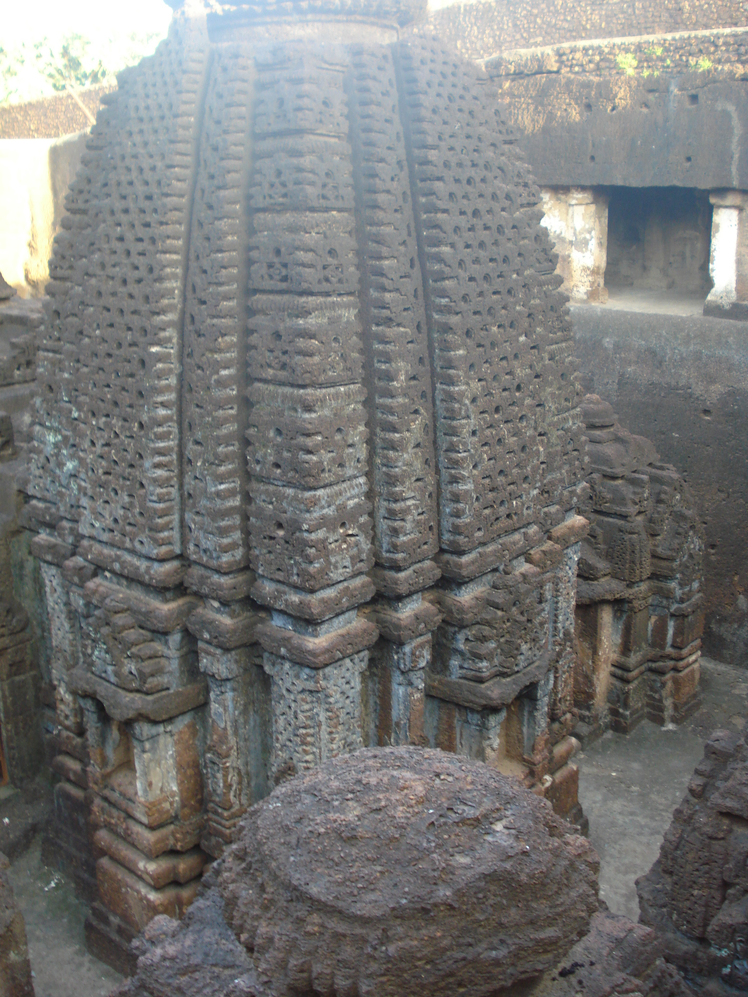 Dharmrajeshwar temple at Chandwasa in Mandsaur district in Madhya Pradesh, India.